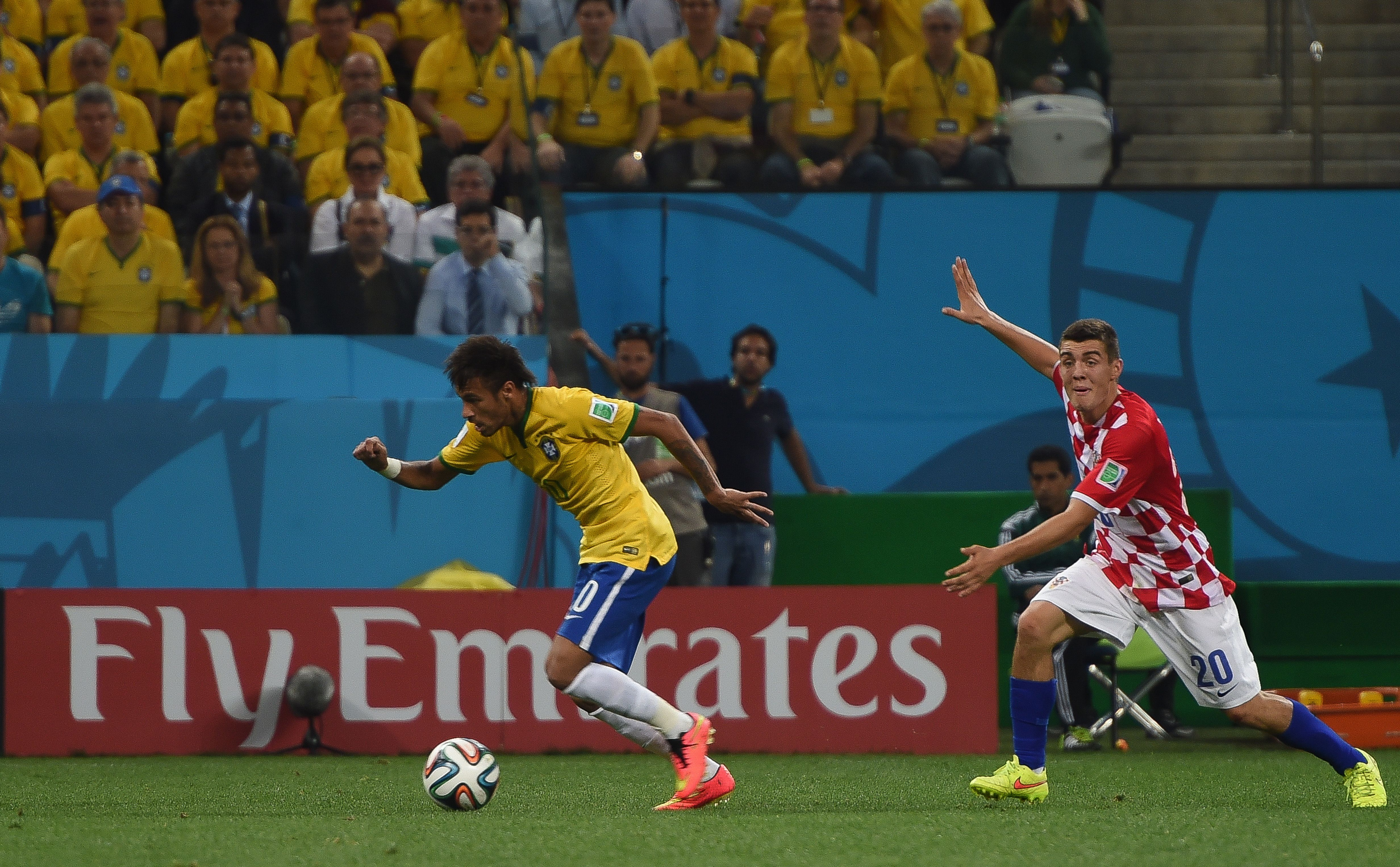 Brazil and Croatia match at the FIFA World Cup 2014-06-12